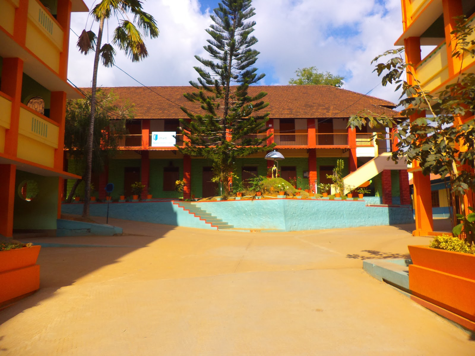 St. Therese's Convent Girl's Higher Secondary School, Neyyattinkara in Neyyattinkara town in Convent Road was established in the year 1928. School Established in the year 1928 English Medium School started in 1931 Higher Secondary section added in 2002 I.C.S.E. wing started in 2007